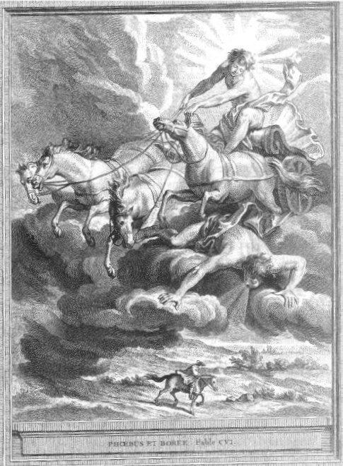 J-B Oudry's illustration for the edition of La Fontaine's Fables executed 1729/34